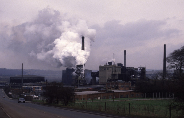 The coking plant at Orgreave, South Yorkshire, in 1989. The huge cloud of water vapour is a result of a periodic quench. Coke is made anaerobically and is incandescent when pushed out. It must be rapidly quenched by water sprays or it will self-combust in the air. This quenching is dramatic as can be clearly seen.